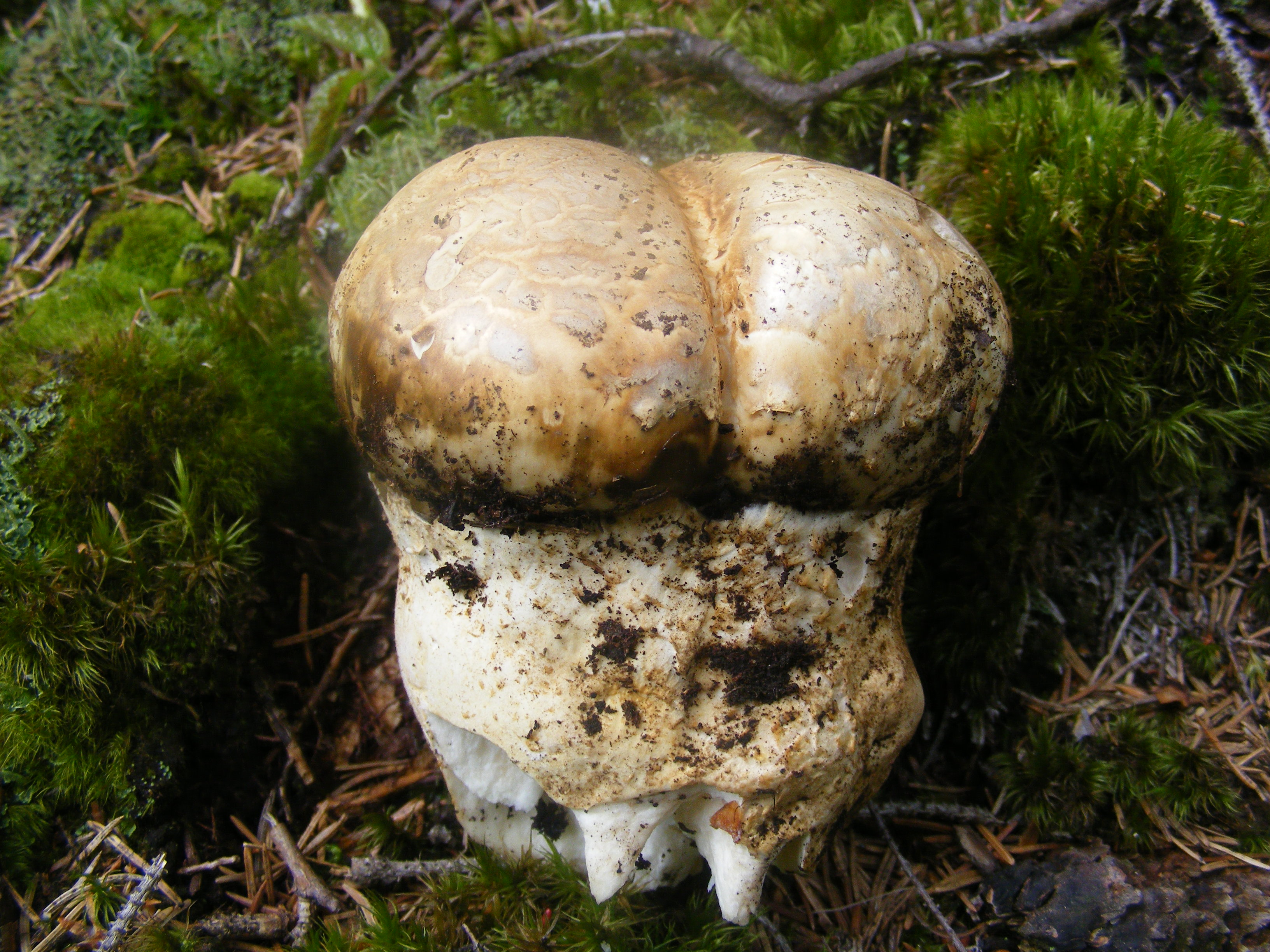 Catathelasma imperiale